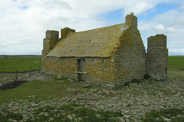 Bothy, Rusk Holm The bothy is now only occasionally used by sheep farmers who manage the islands flock of North Ronaldsay sheep. The large chimney was reputably used to burn kelp.